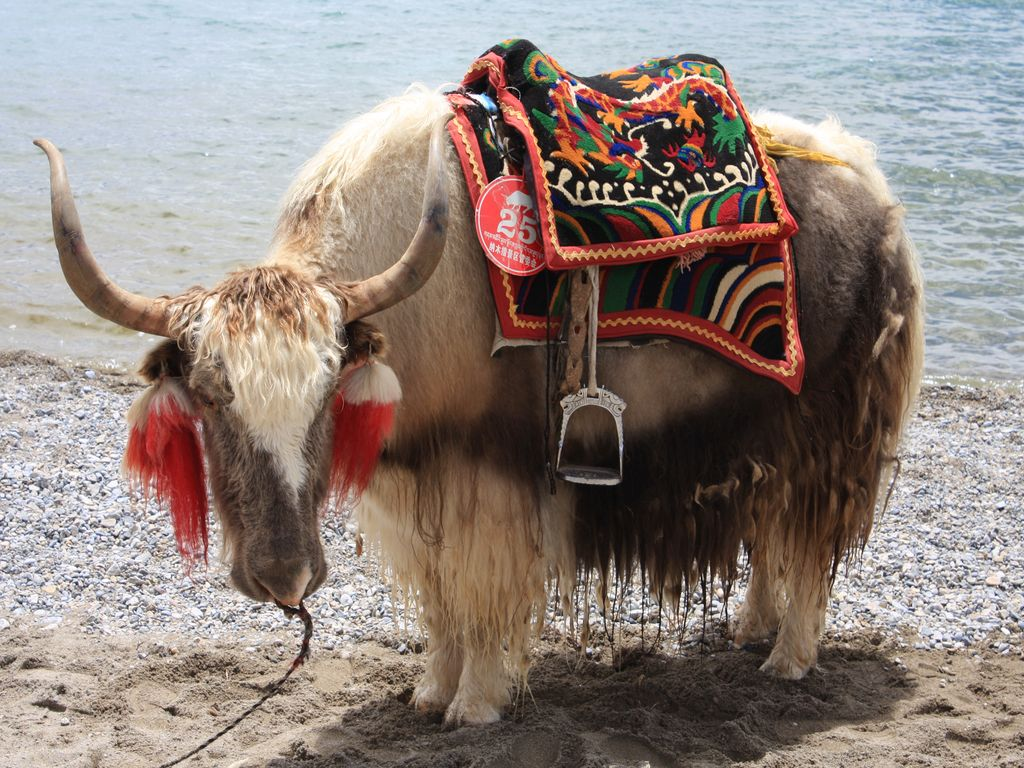 Yak (Bos grunniens) at Nam Tso Lake, Tibet Autonomous Region